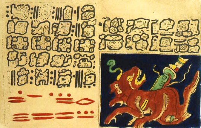 Aztec hieroglyphs